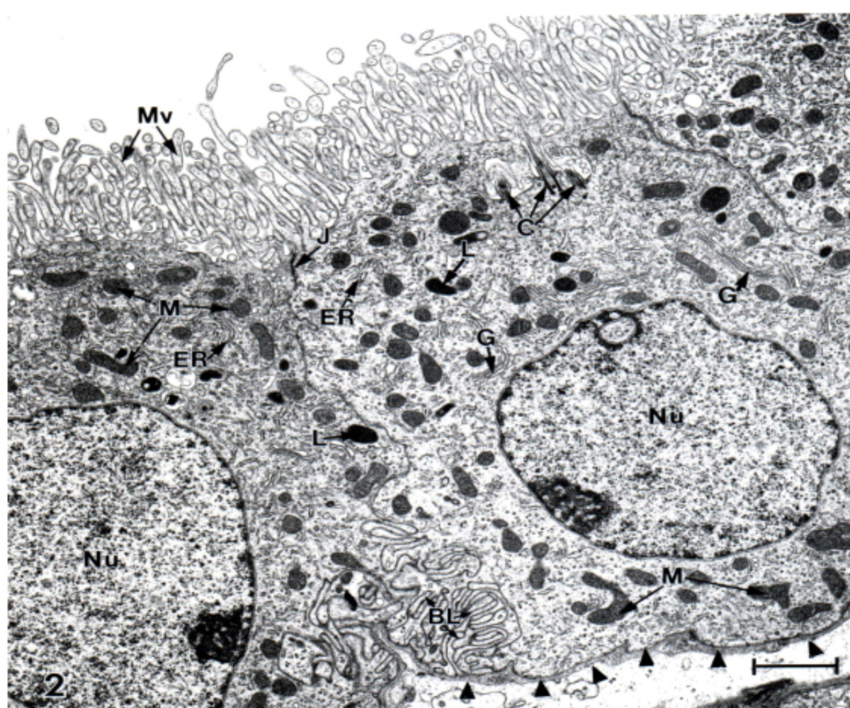 Ultrastructure of choroid epithelium. CP from a lateral ventricle of an untreated adult Sprague-Dawley rat was fixed for electron microscopy with OsO4. There is a profusion of apical membrane (CSF-facing) microvilli (Mv) and many intracellular mitochondria (M). J refers to the tight junction welding two cells at their apical poles. C = centriole. G and ER, Golgi apparatus and endoplasmic reticulum. Nucleus (Nu) is oval and has a nucleolus. Arrowheads point to basal lamina at the plasma face of the epithelial cell; the basal lamina separates the choroid cell above from the interstitial fluid below. Basal labyrinth (BL) is the intertwining of basolateral membranes of adjacent cells. Choroidal morphology resembles proximal tubule, consistent with both cell types rapidly turning over fluid. Scale bar = 2 μm. Johanson et al. Cerebrospinal Fluid Research 2008 5:10